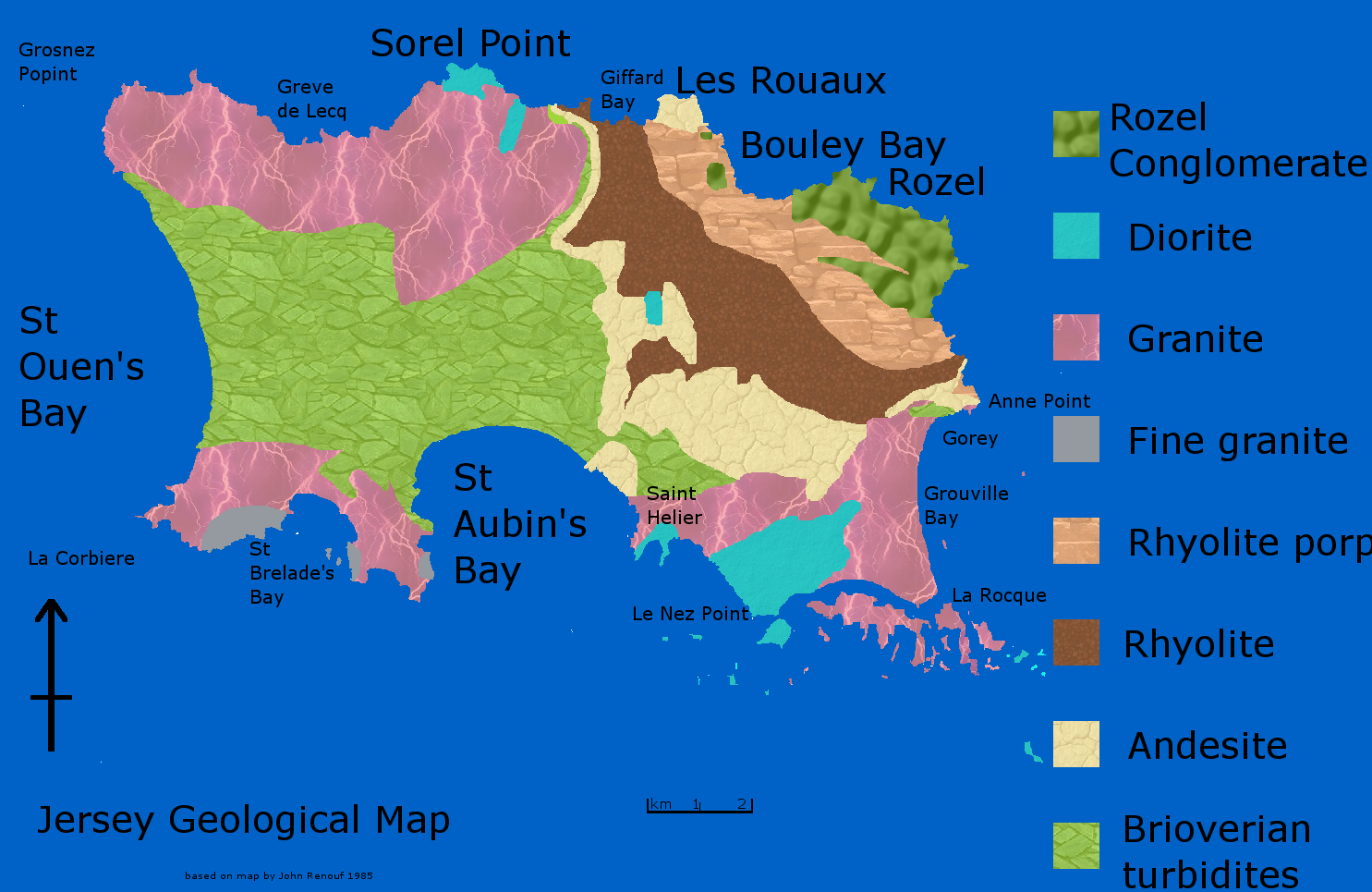 Map of geology of Jersey, Channel Islands showing main rock types with textured rocks